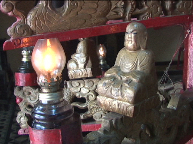 This little figure of a person contemplating a candle is in the Giac Lam Pagoda, Ho Chi Minh City.